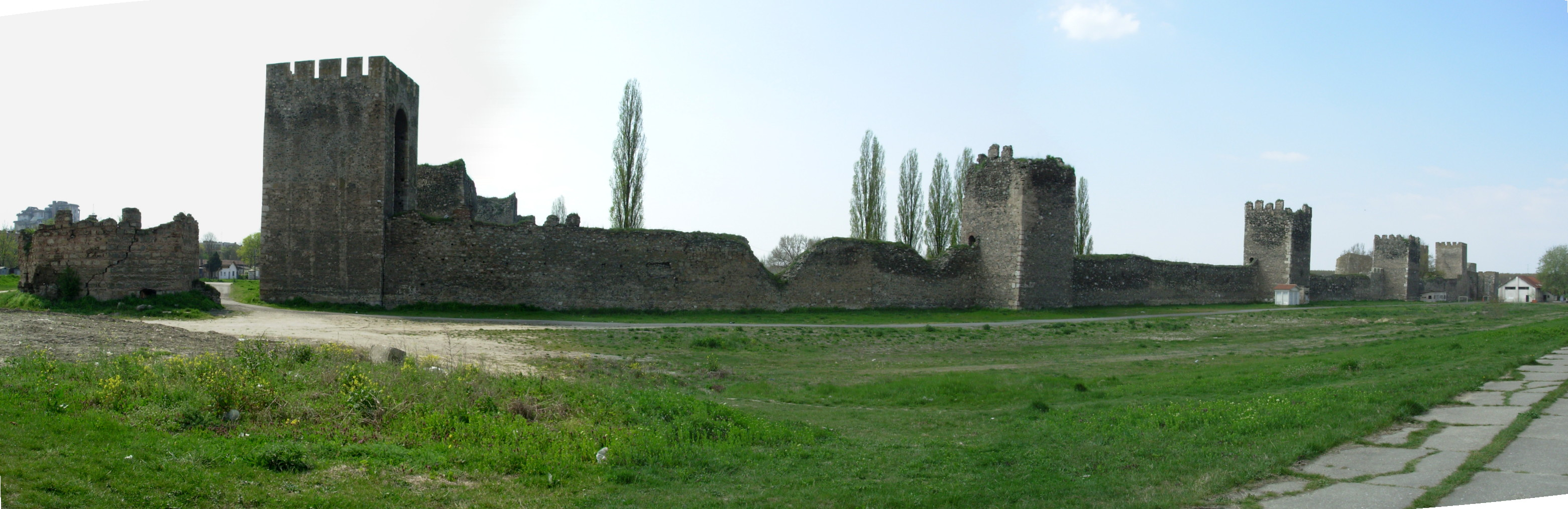 Panoramic view of the eastern (Jezava) wall of Smederevo Fortress. Photo taken from oustside the fortress.